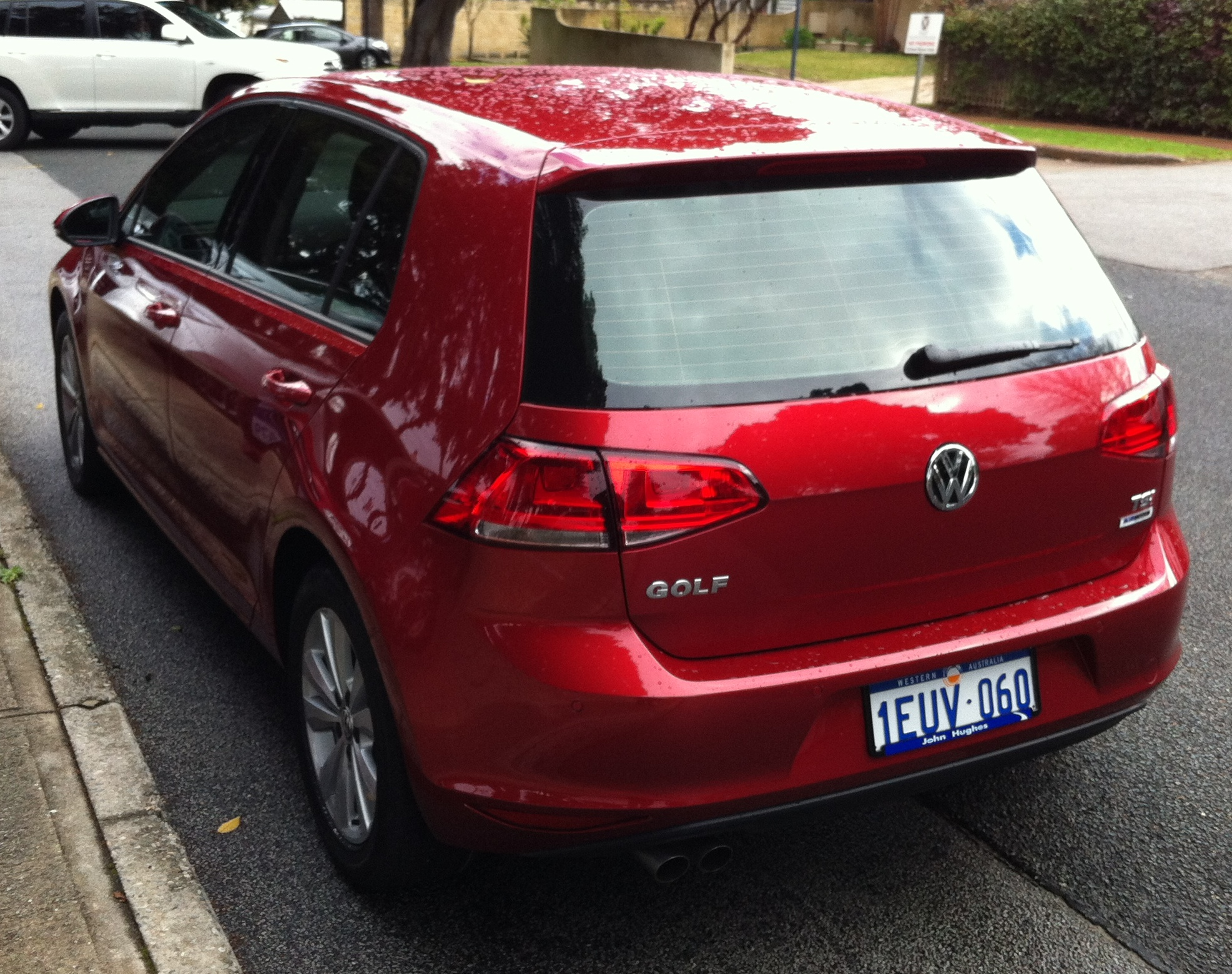 2015 Volkswagen Golf (5G MY15) 90TSI Comfortline. Photographed in Swanbourne, Western Australia